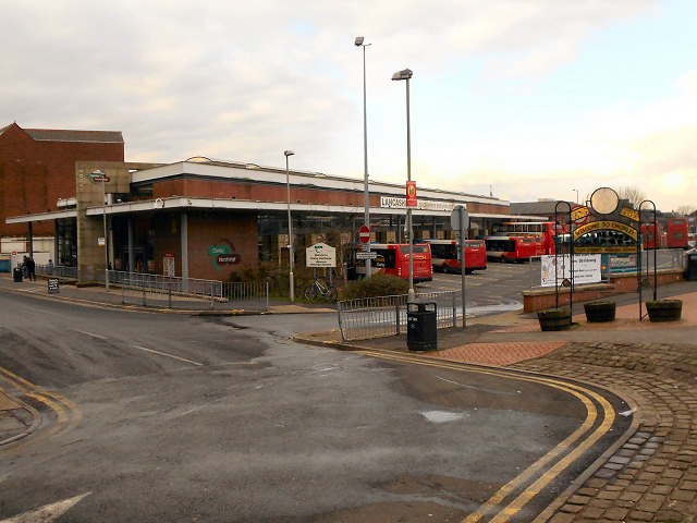 Chorley Bus Station, Data from Geograph: Description: Part of the Chorley Transport Interchange; the train station is on the other side of Shepherds Way. (2786573) ICBM: 53.652617538279, -2.6281430220399 Location: (about 0 km from) near to Chorley, Lancashire, Great Britain.